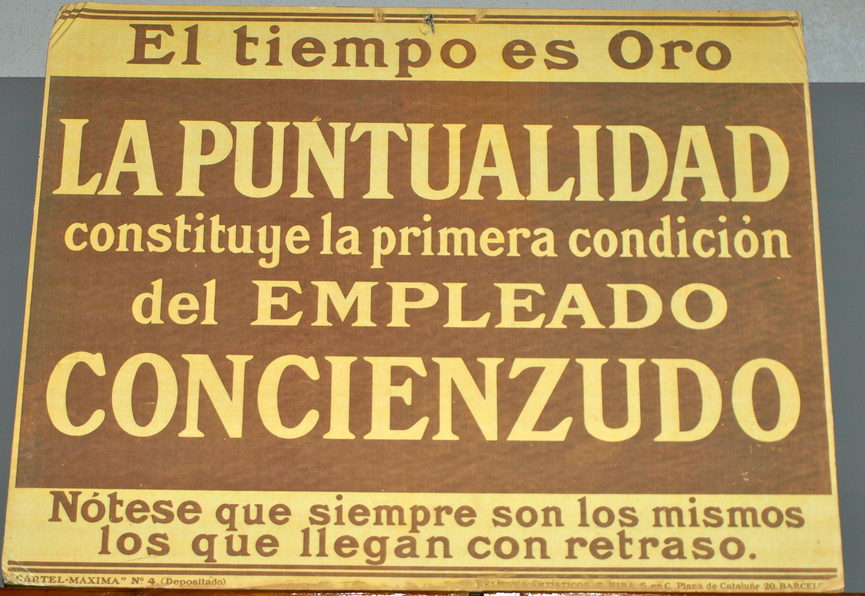 Motivation poster at the textile factory